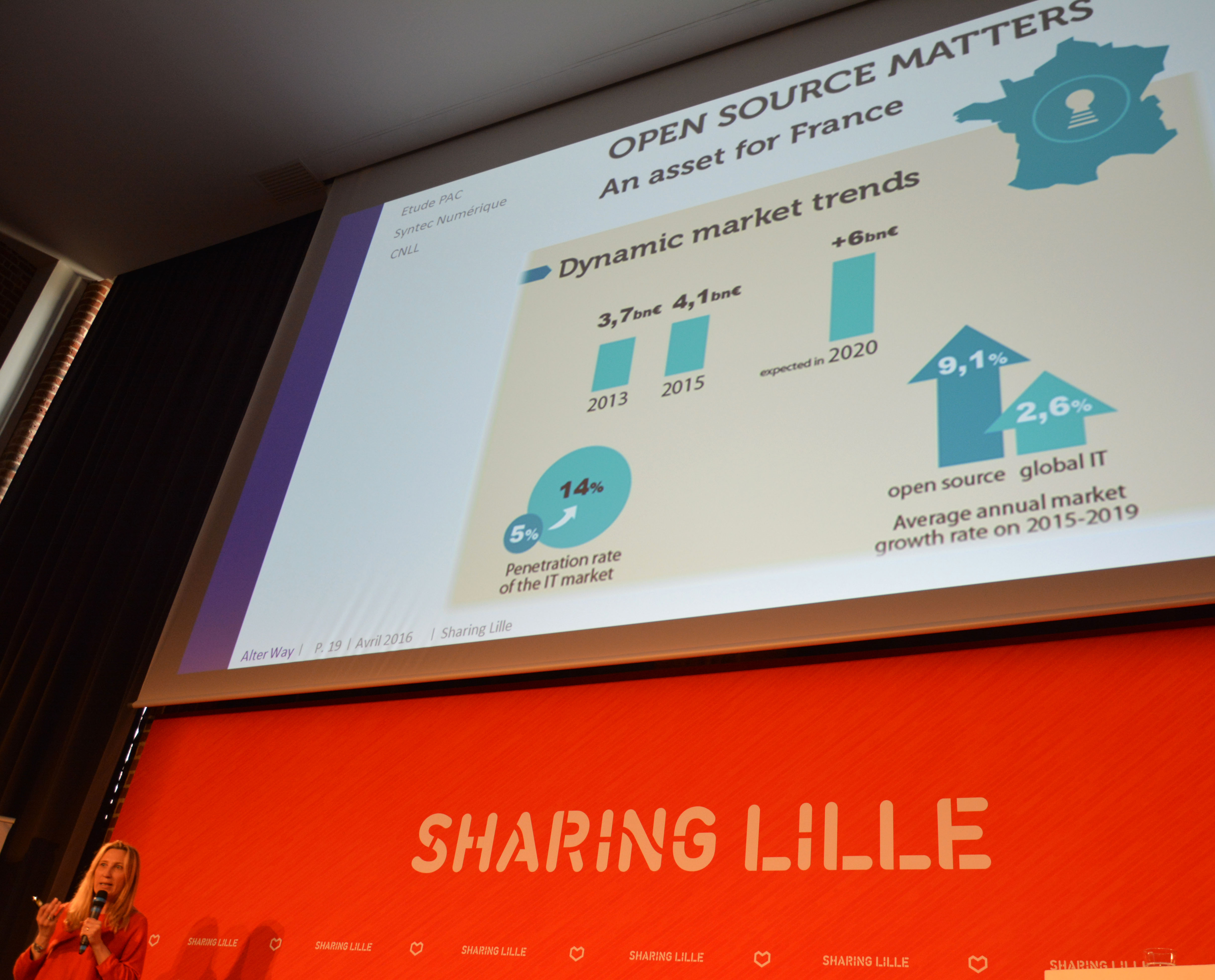 Véronique Torner (Alter Way) in "Sharing Lille" 2016-04-21 (day dedicated to the collaborative economy across territories). This event was held in Lille Euratechnologies (in Region Nord-Pas-de-Calais and Picardy called "Hauts de France"